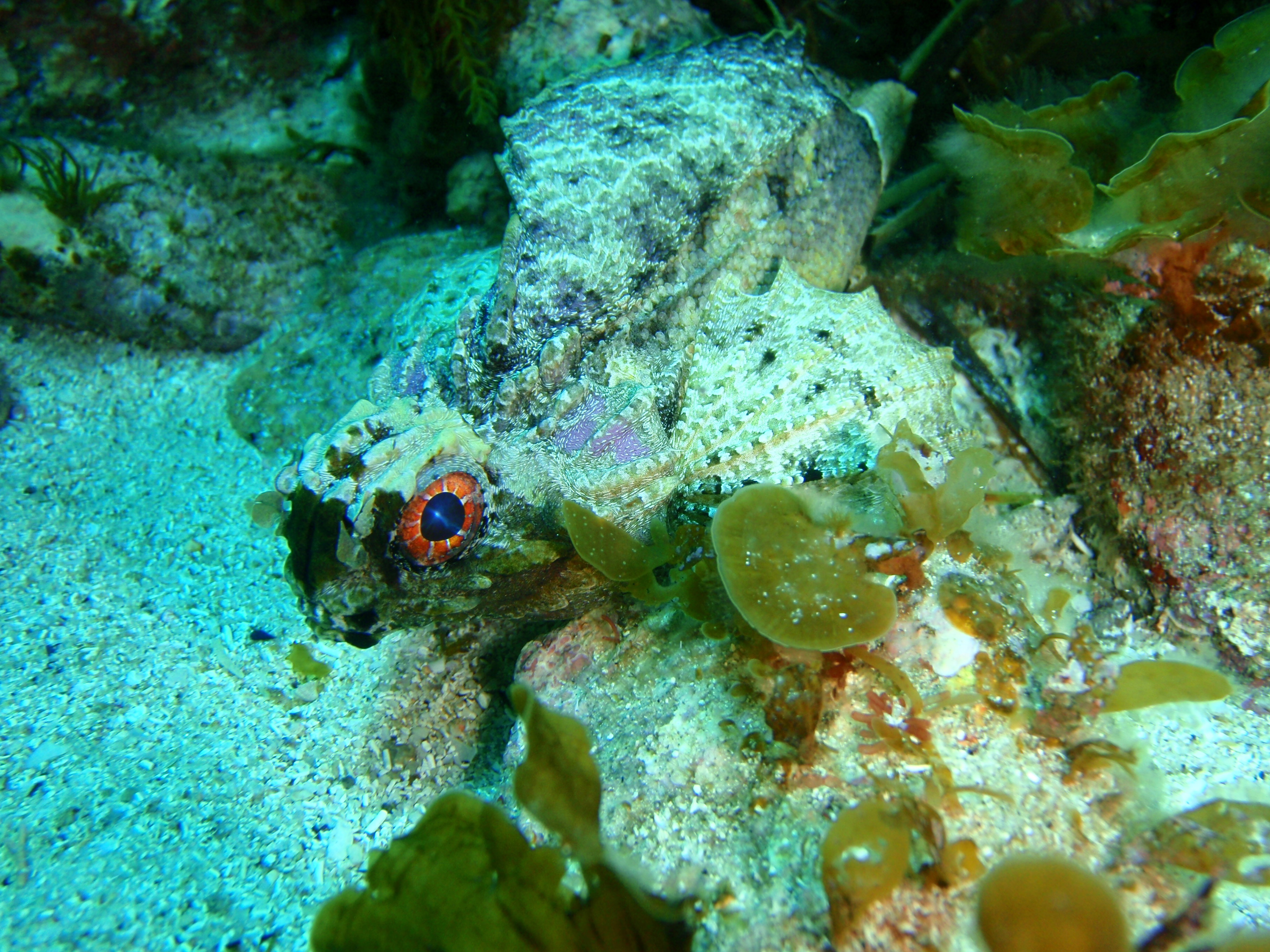 Goblinfish Glyptauchen panduratus at North west bay, Mondrain Island, West Australia